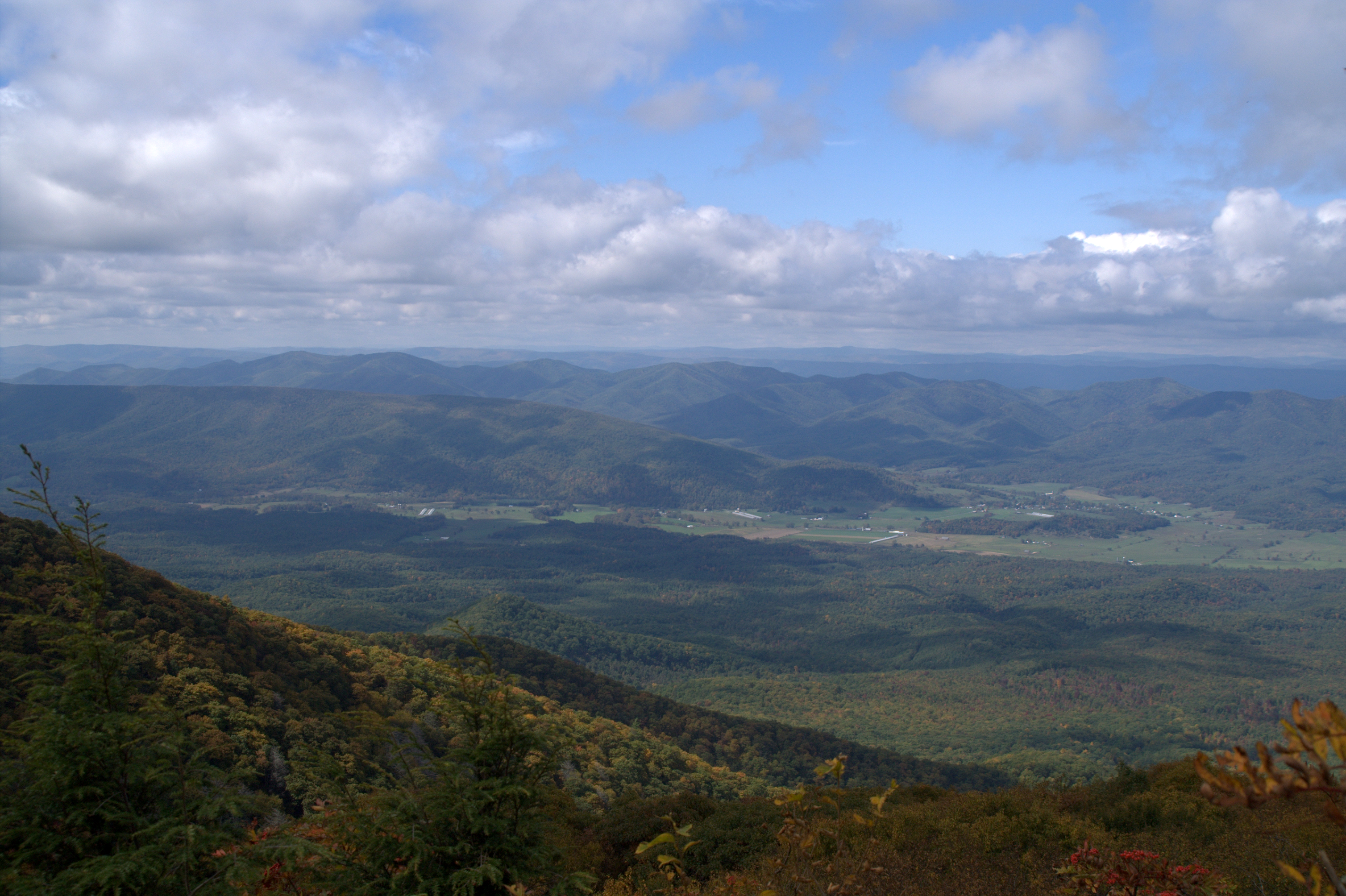 View towards west from Elliott Knob (4,463 feet (1,360 m)), the highest point in Augusta County, Virginia. Approximate coordinates image taken: N38°09′59″, W79°18′53″